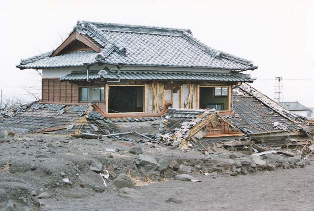 Devastation resulting from eruption of Mt. Unzen, Nagasaki Pref., Japan User Fg2 took this photograph and contributed it to the public domain. Picture taken from en.wikipedia